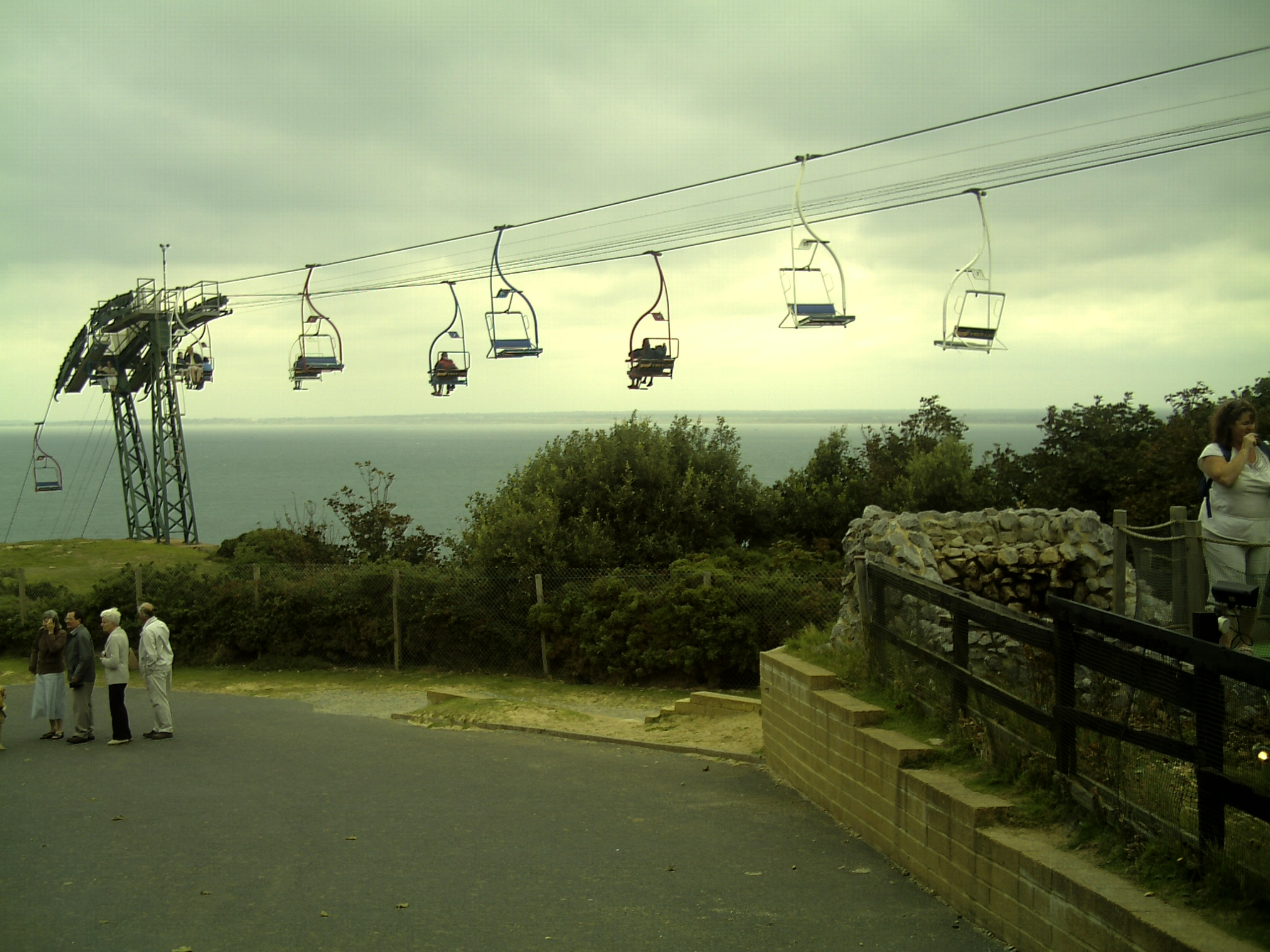 Chair lift at The Needles, IOW